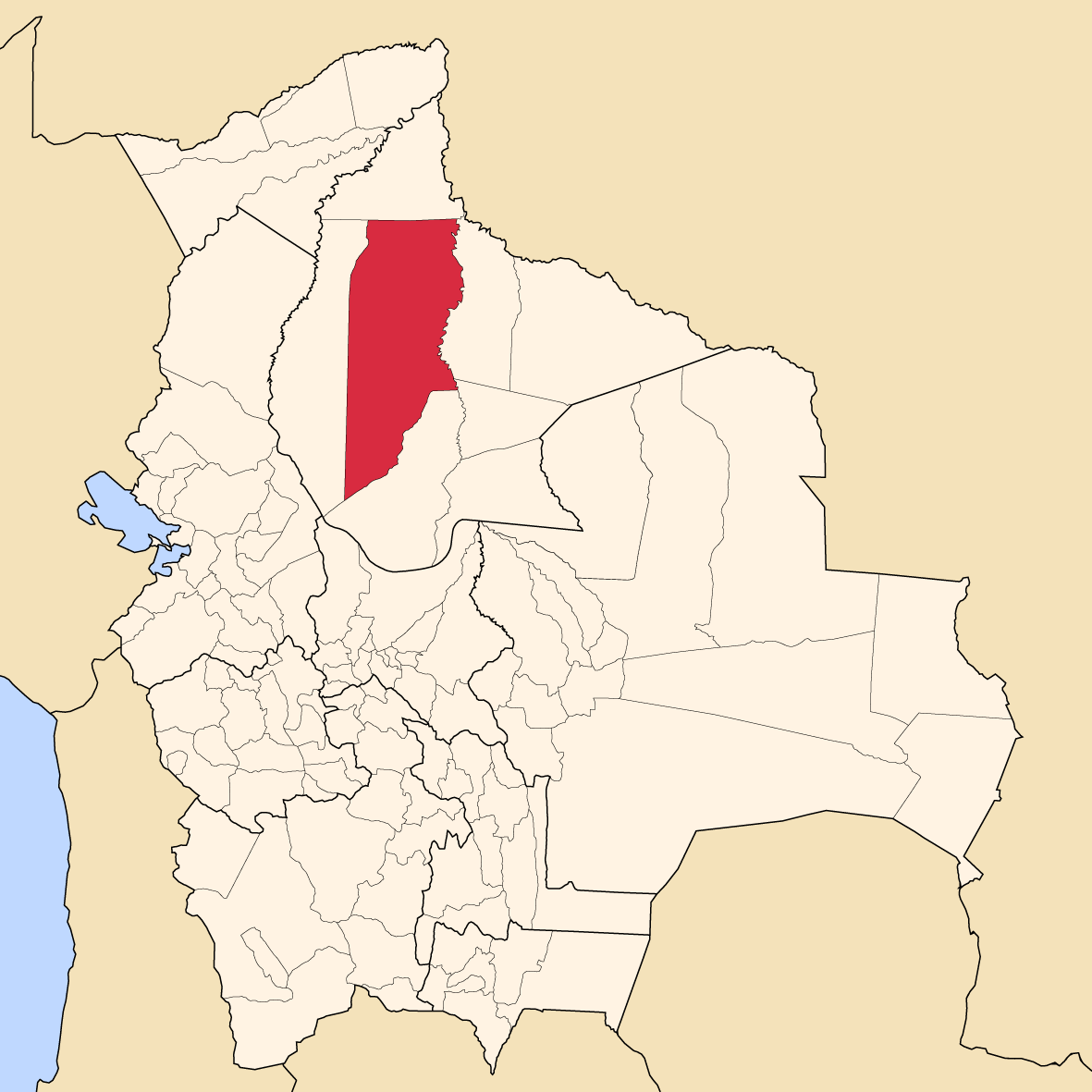 Map of Bolivia showing Yacuma province, Beni